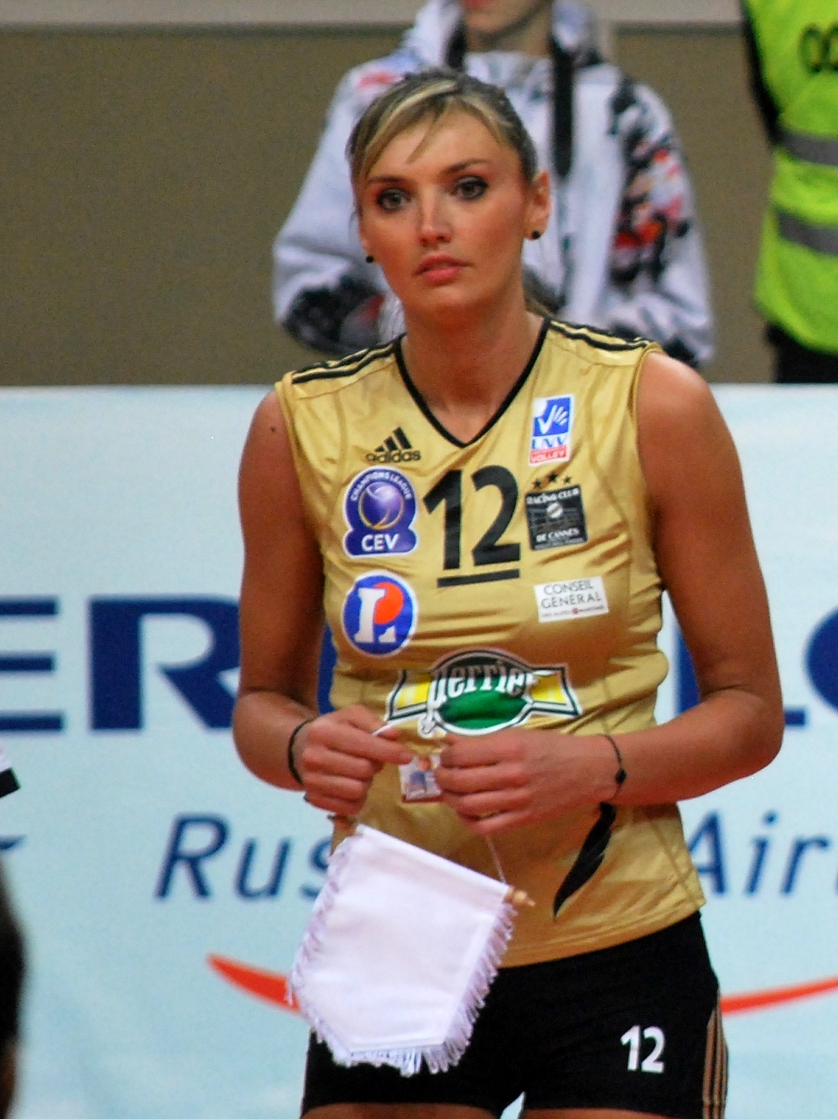 Victoria Ravva, volleyball player from France, georgian descent